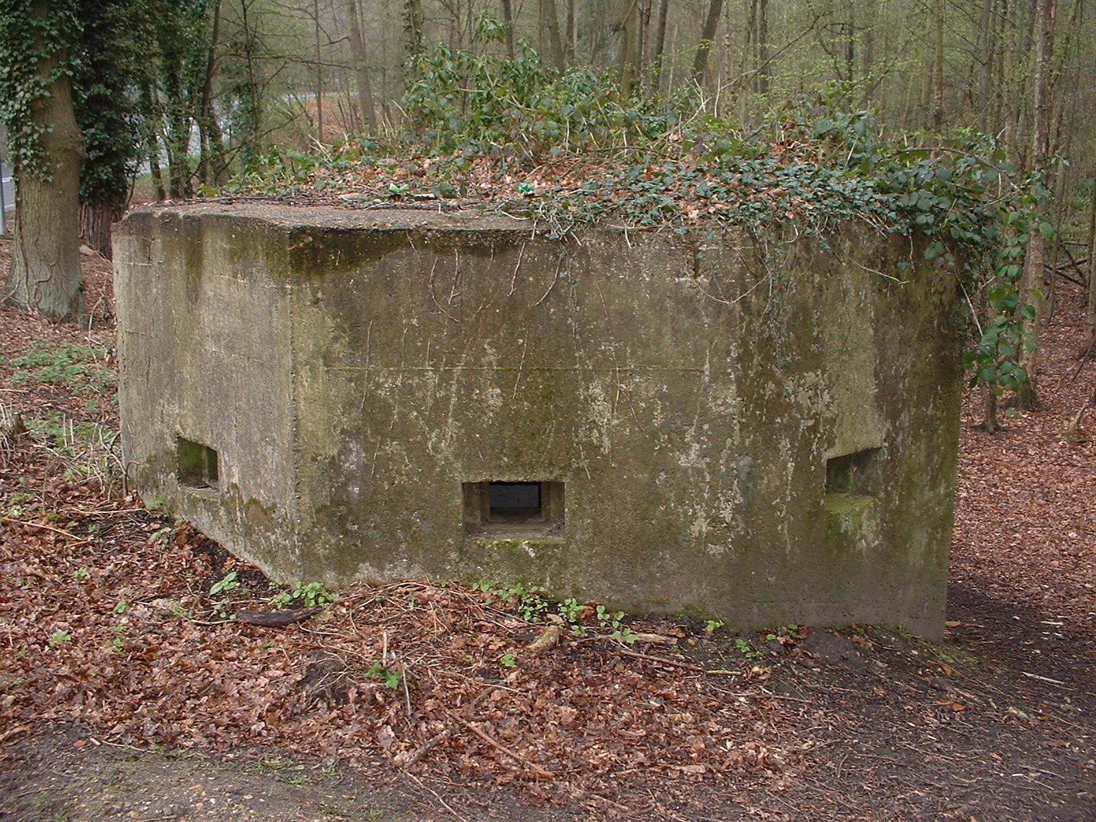 Section drawing of pillbox of similar type Pillbox - Curzon Bridges OS reference SU920561 Just to the north of a tunnel through the railway embankment. The tunnel is itself just south of Curzon Bridge over the Basingstoke canal. A small number of anti-tank blocks nearby. Accessible. Entrance blocked by rubbish. Good condition. There is a square prefabricated pillbox to the south of the tunnel. OS reference SU920561